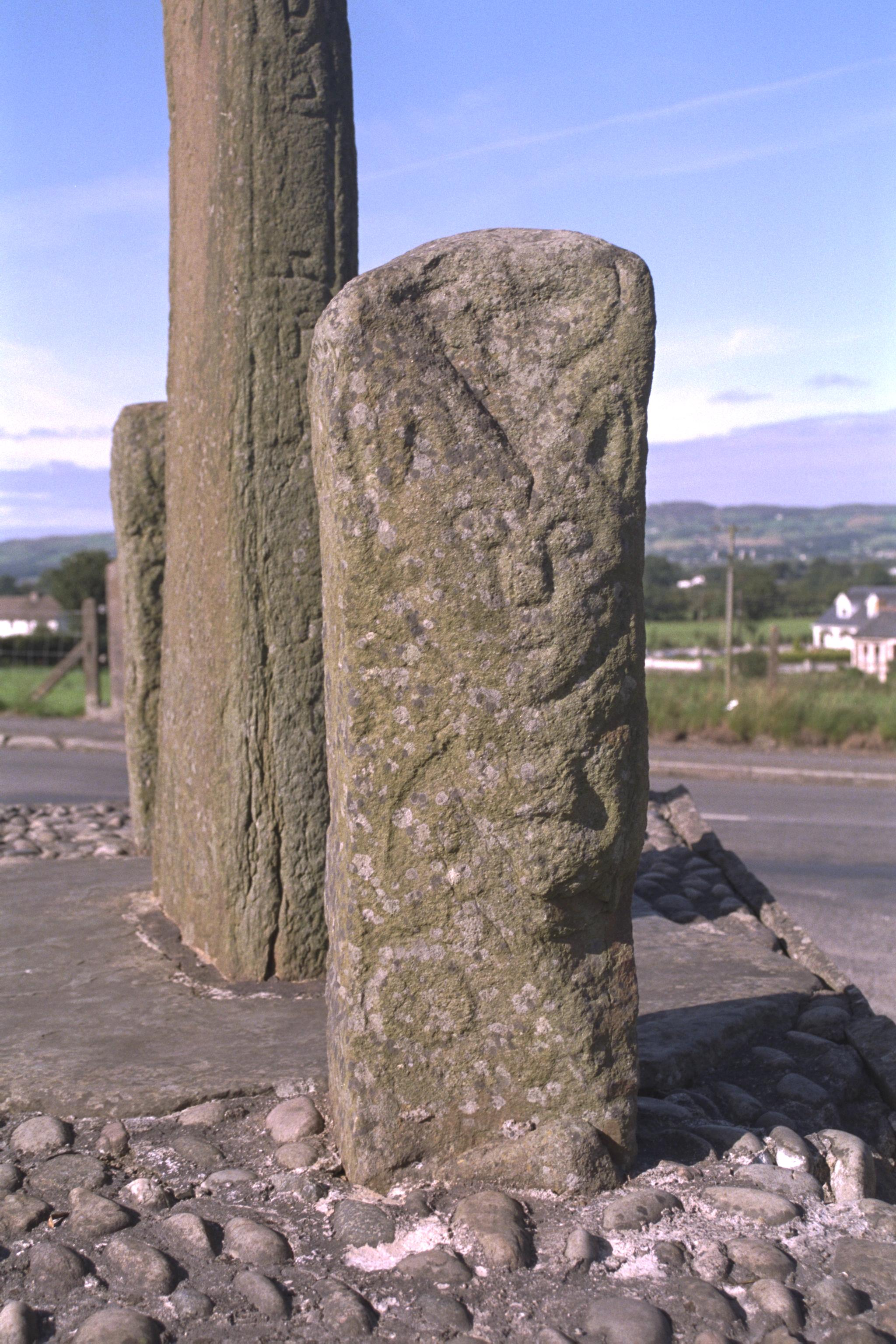 Carndonagh High Cross, County Donegal, Ireland South face of the south pillar